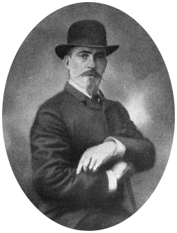 Henry Ronald Douglas McIver (1841–1907) was a soldier of fortune who fought for 18 countries. From Richard Harding Davis (1912) Real Soldiers of Fortune, C. Scribner's Sons, pp. Page 24